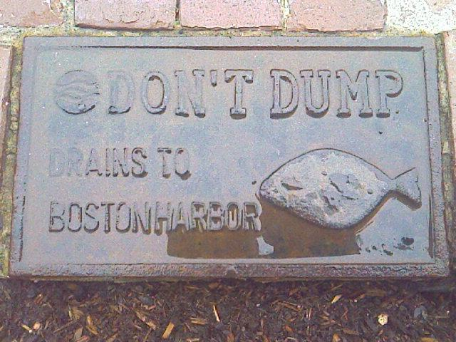 Typical sidewalk signage in the city of Boston, Massachusetts. The sign highlights the susceptibility of environment to human pollution and raises awareness of the city's vast storm drain emptying into the Boston Harbor.